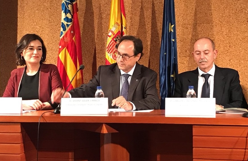 Carlos Alfonso